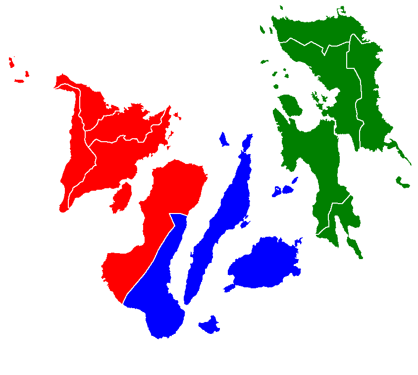 A map of Visayas color-coded by regions. The Palawan Islands on the west part are not part of Region 6 nor part of the Visayas Island Group. Palawan is part of Region 4-B also known as MIMAROPA (Mindoro,Marinduque, Romblon, and Palawan) and is part of the Luzon Island Group.